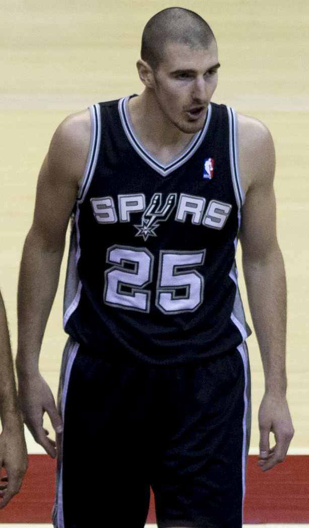 Tony Parker and Nando de Colo playing for San Antonio Spurs away at Washington Wizards